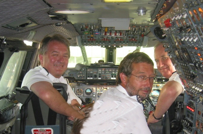 Photo by Paddy Briggs